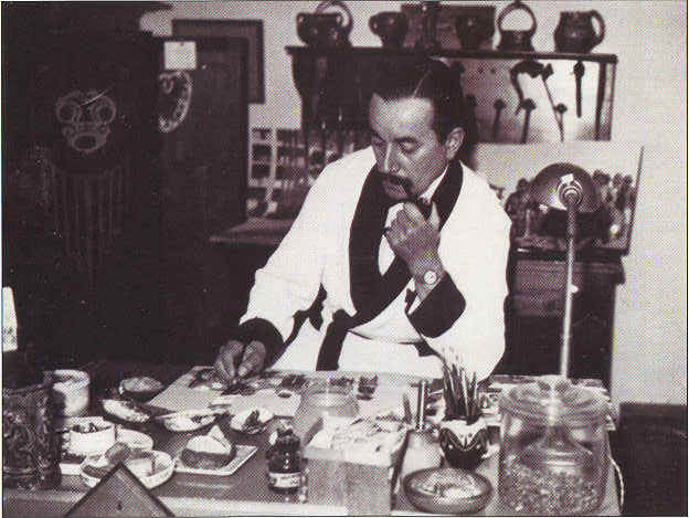 Argentine painter Florencio Molina Campos at his desk.